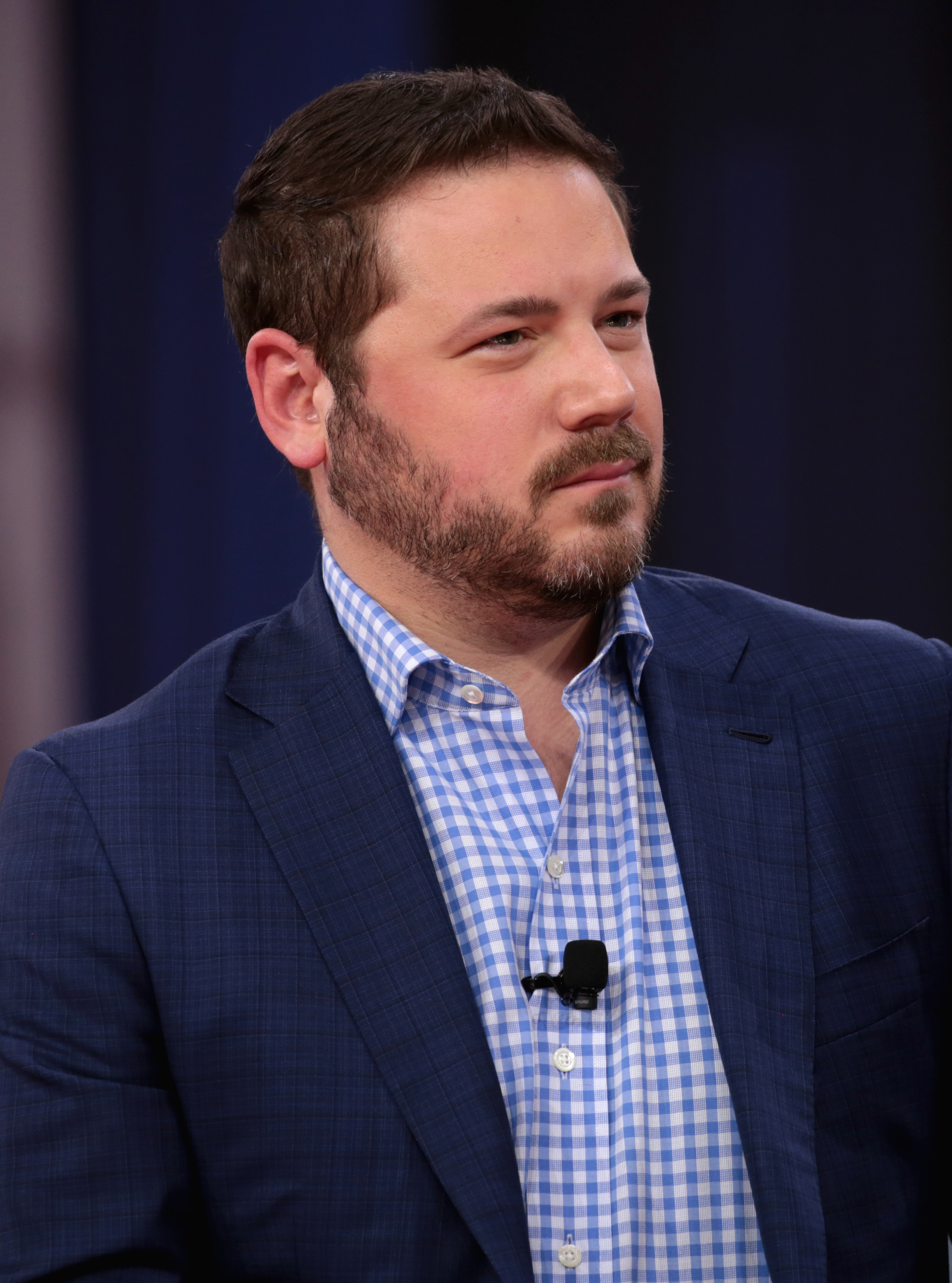 Ben Domenech speaking at the 2018 CPAC in National Harbor, Maryland.